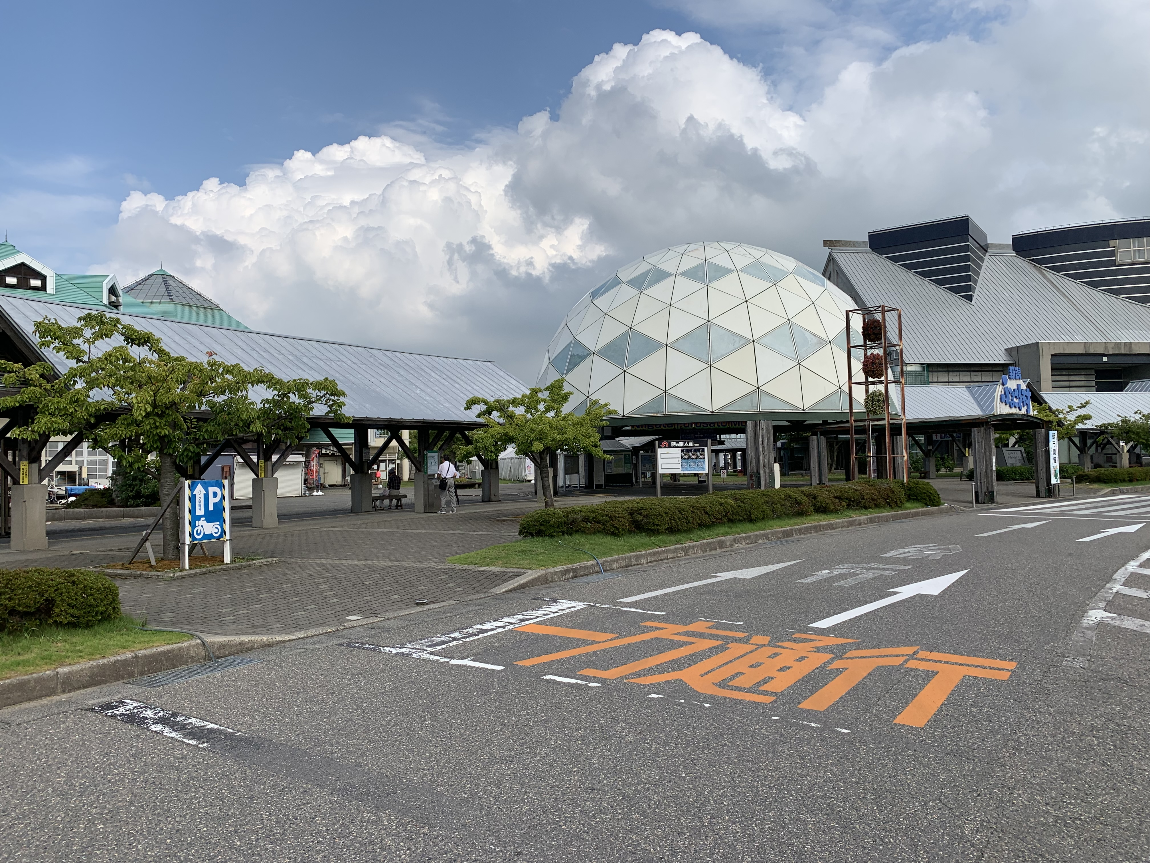 Niigata Furusatomura, Roadside Station, Niigata, Japan. Took photo in August 2019.